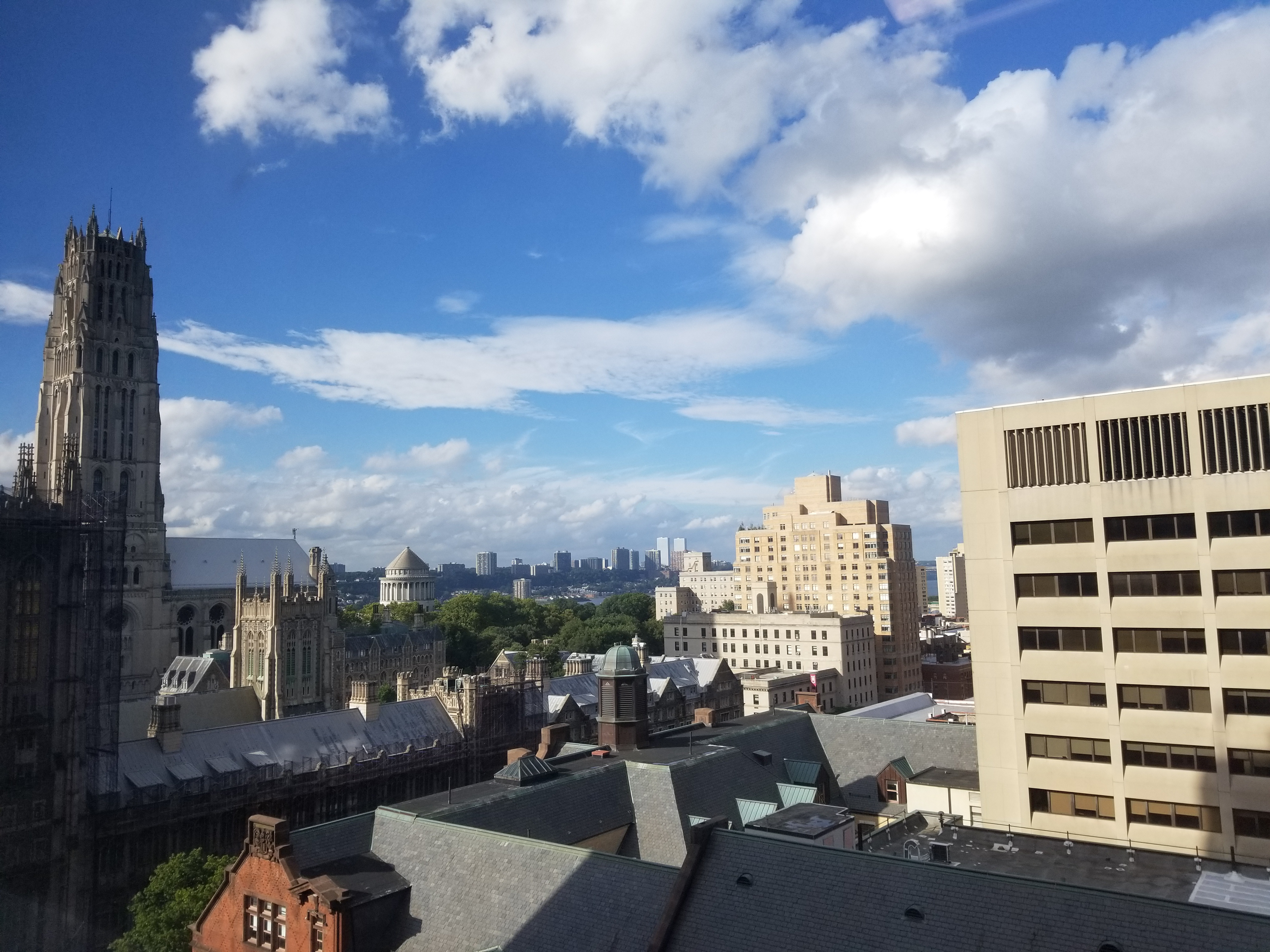 A photo of Morningside heights from Pupin Hall.